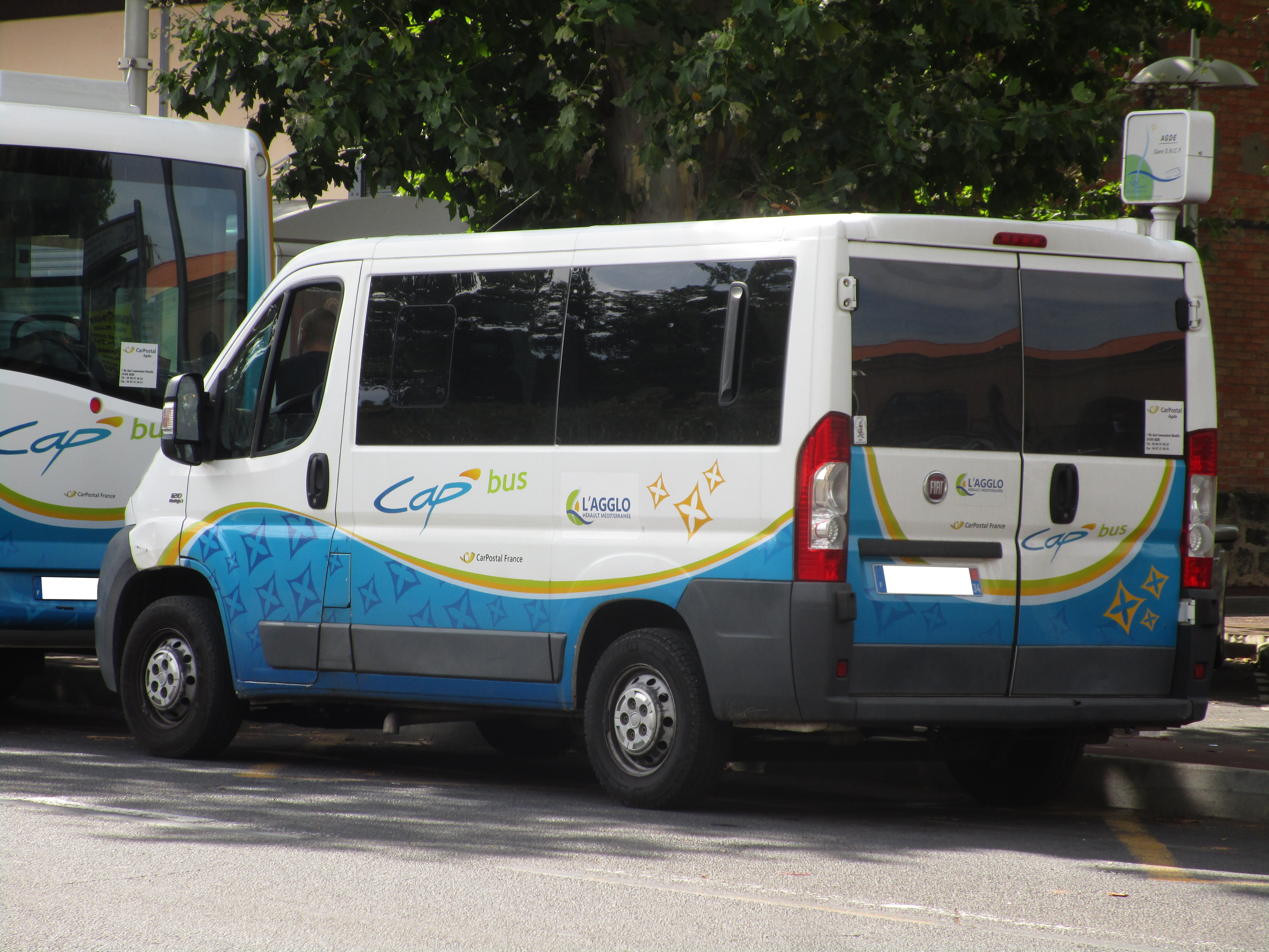 A Fiat Ducato III of Cap’Bus, on the TAD 7, at the call Gare — in the Agde, France — on June 28, 2017.